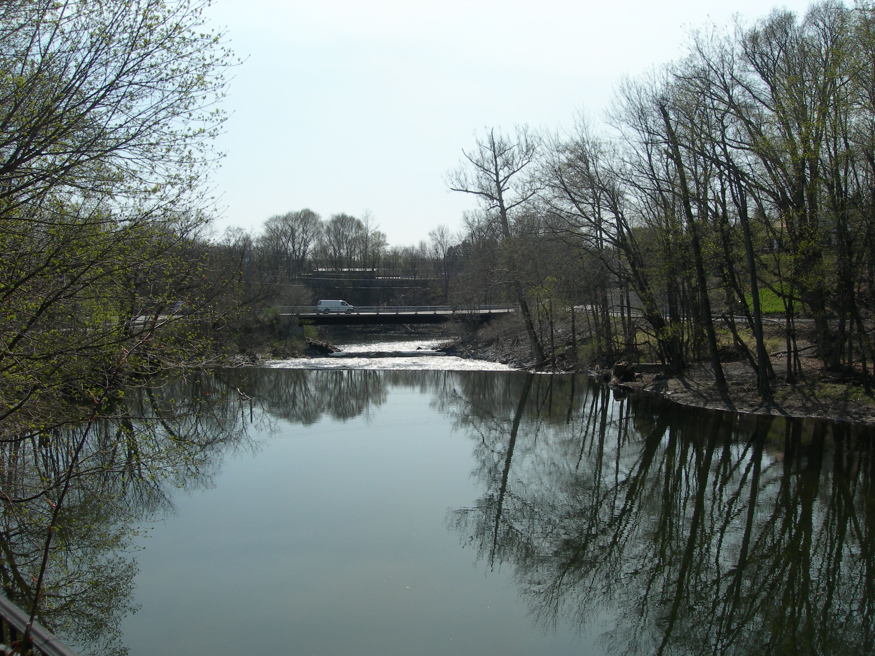 Red Oaks Mill: Waterfall, Town of Poughkeepsie, New York